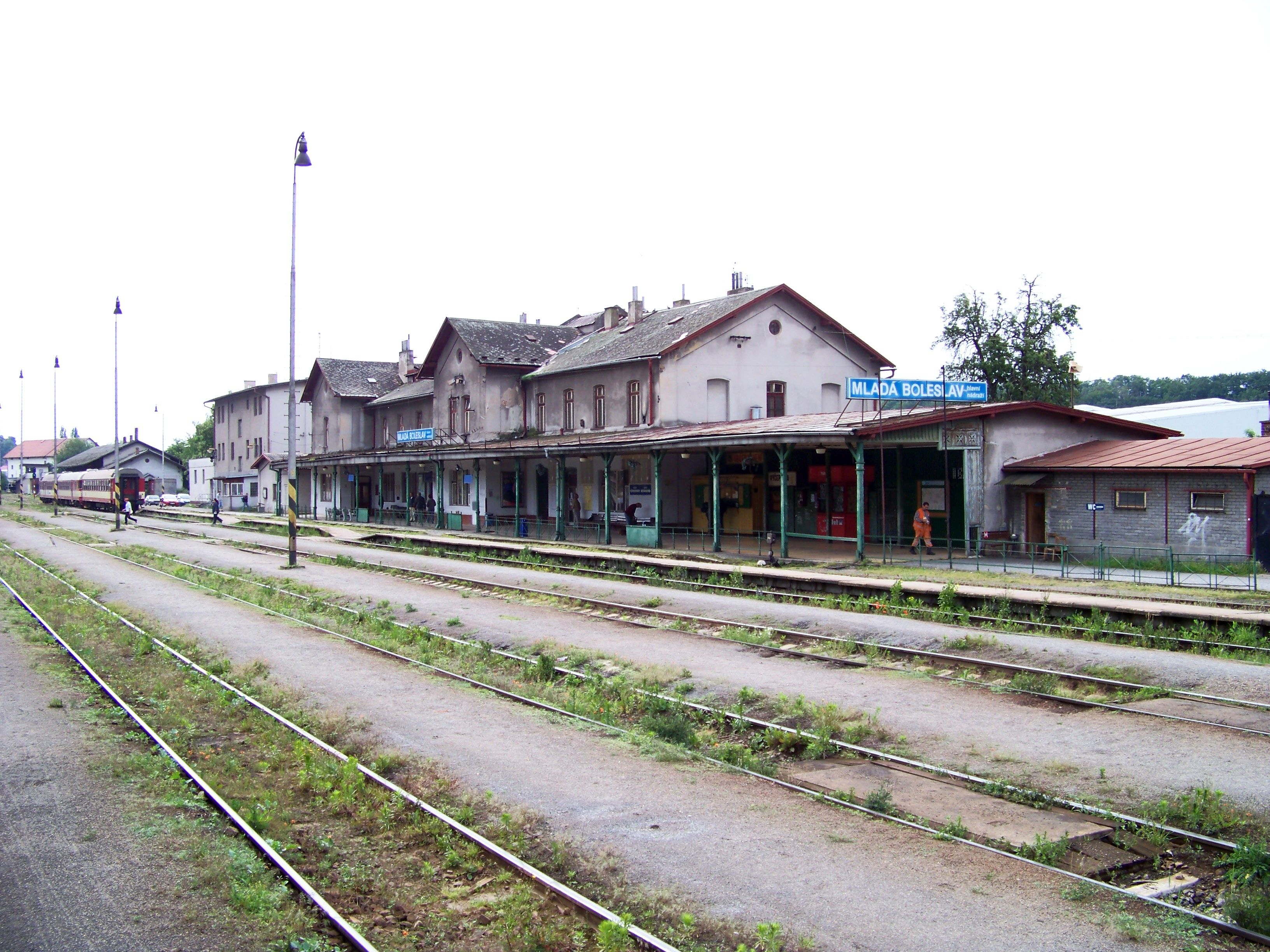 Mladá Boleslav, Central Bohemian Region, the Czech Republic. The main train station. - Google Maps - Google Earth